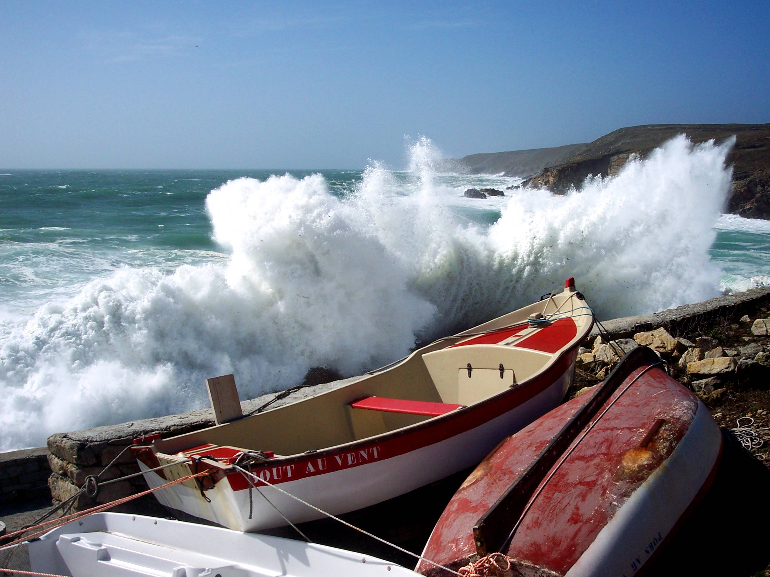 A storm at Pors-Loubous, a small harbour in the municipality of Plogoff (Finistère, Bretagne, France).